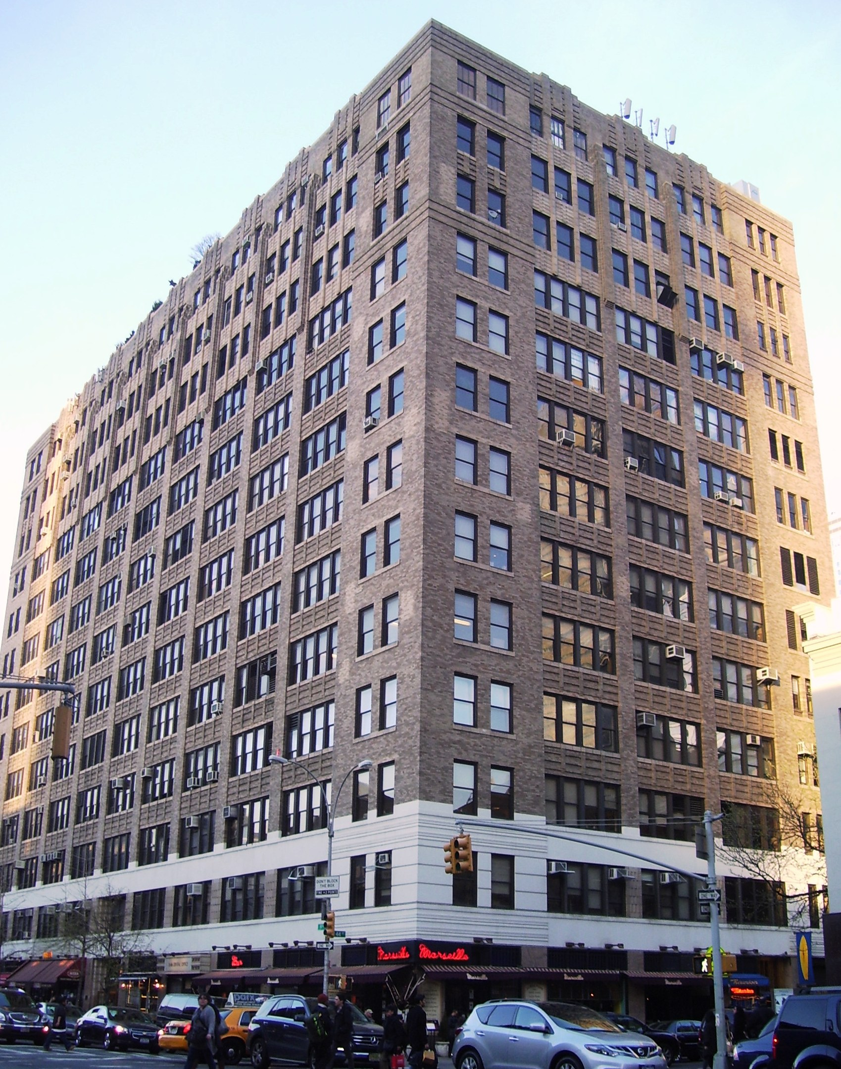 The Film Center Building at 630 Ninth Avenue between West 44th and 45th Streets in the Hell's Kitchen or Clinton neighborhood of Manhattan, New York City was built in 1928-29 and was designed in Art Deco style by Ely Jacques Kahn of the firm of Buchman & Kahn. The building was listed on the National Register of Historic Places in 1984, and the first-floor interior was designated a New York City landmark in 1982.